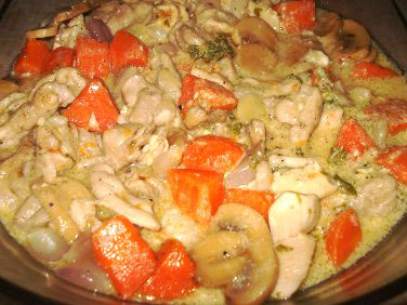 Chicken Fricassée